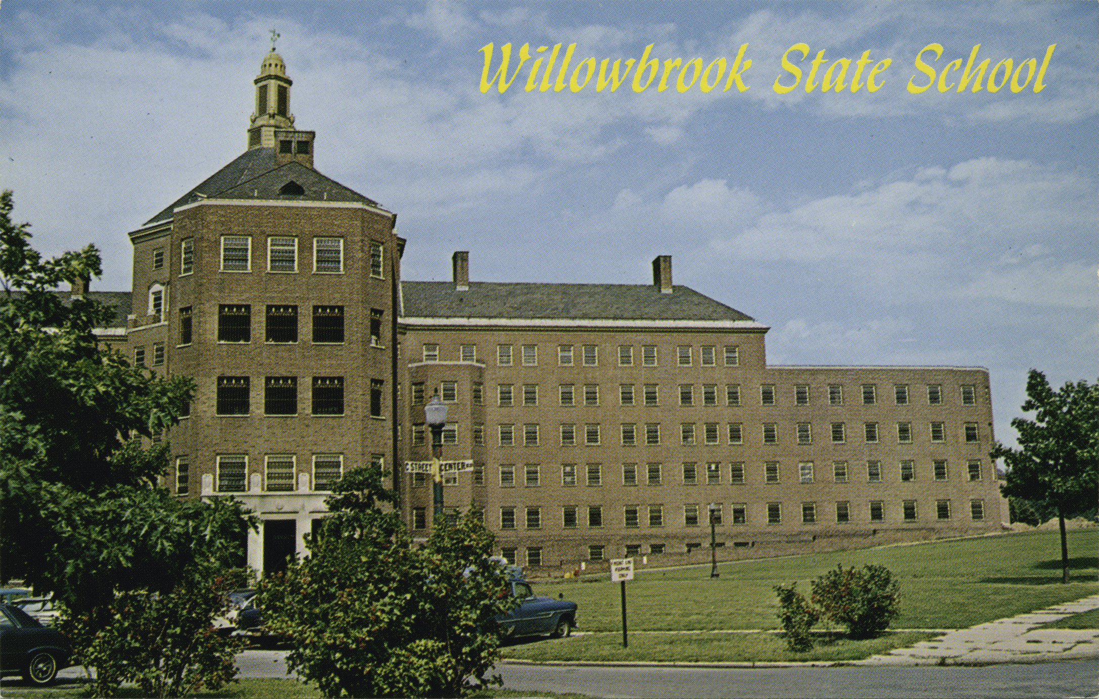 Postcard categories and title comments in brackets provided by collector, Catherine Robinson.